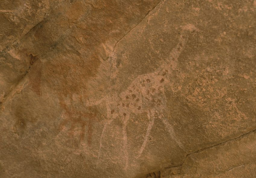 Giraffe figure.